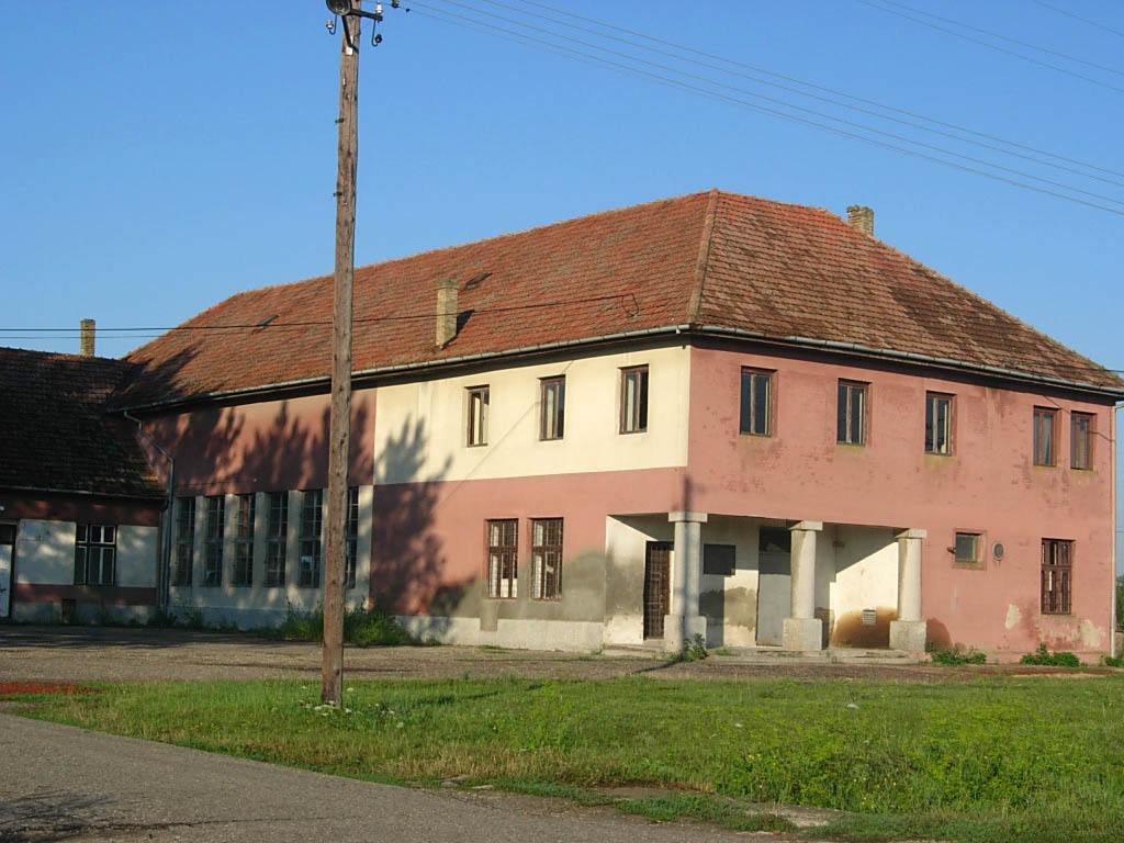 Podlokanj. Centre of the village.